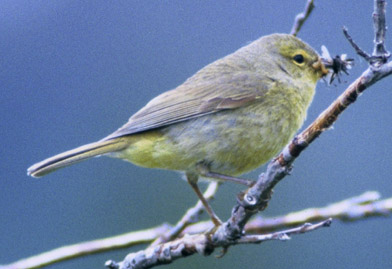 Orange-crowned warbler at Kodiak Island